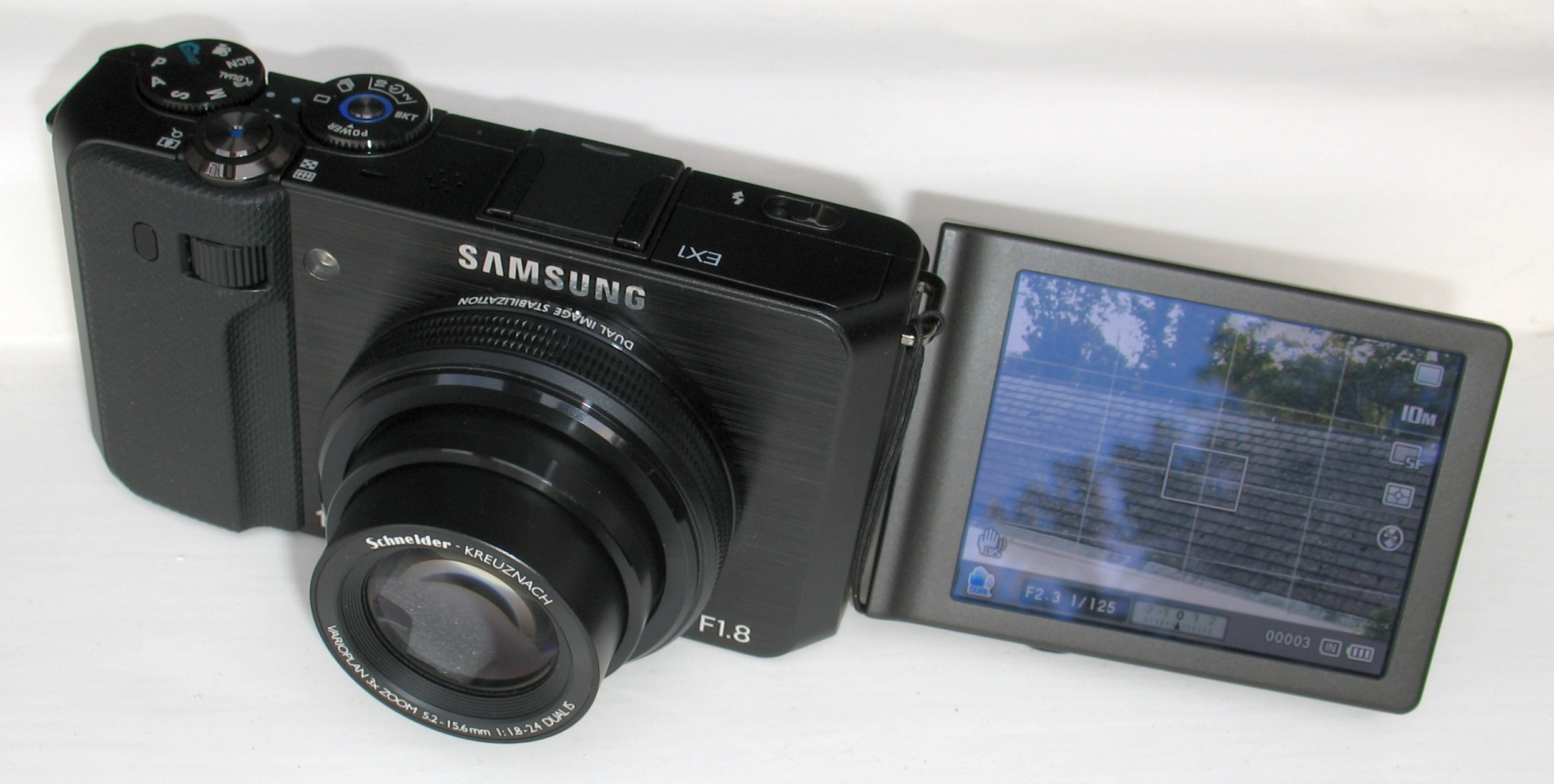 Samsung digital camera model EX1 / TL500